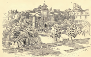 Nicholas C. Creede Residence, Los Angeles CA, c. 1894